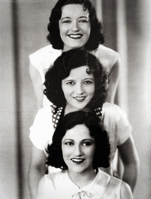 Photo of the singing Boswell Sisters. From top: "Vet," Martha, and Connie.